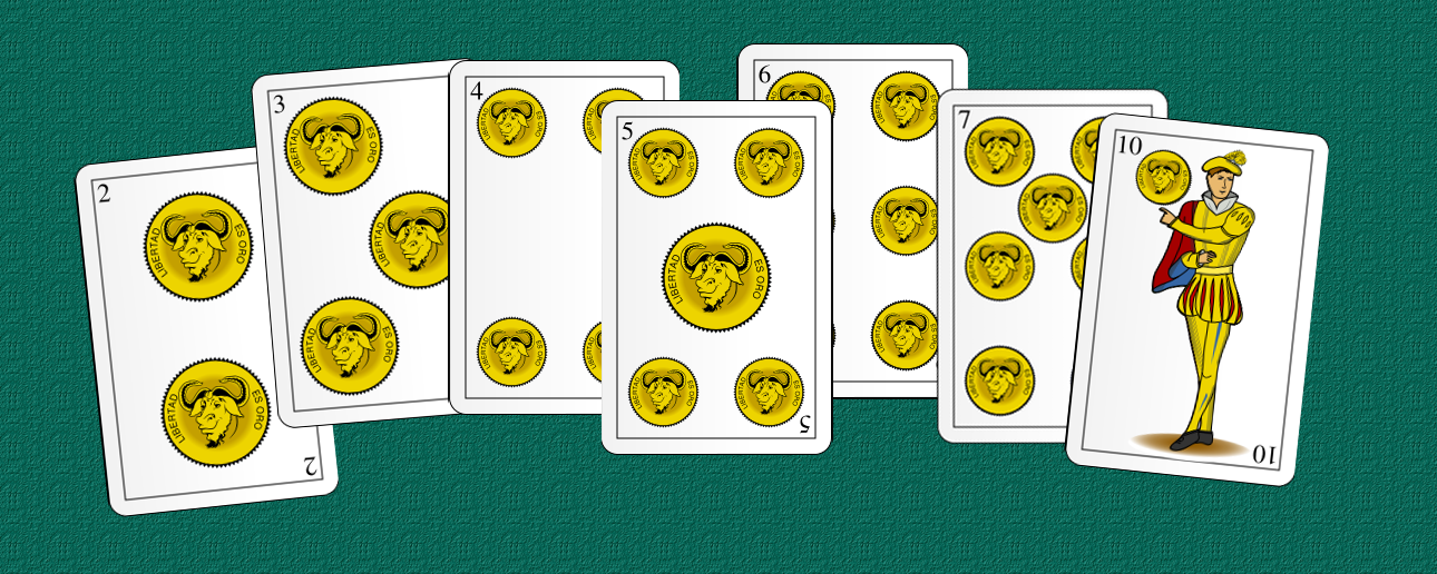 A good combination of cards in the spanish playing game called Chinchón